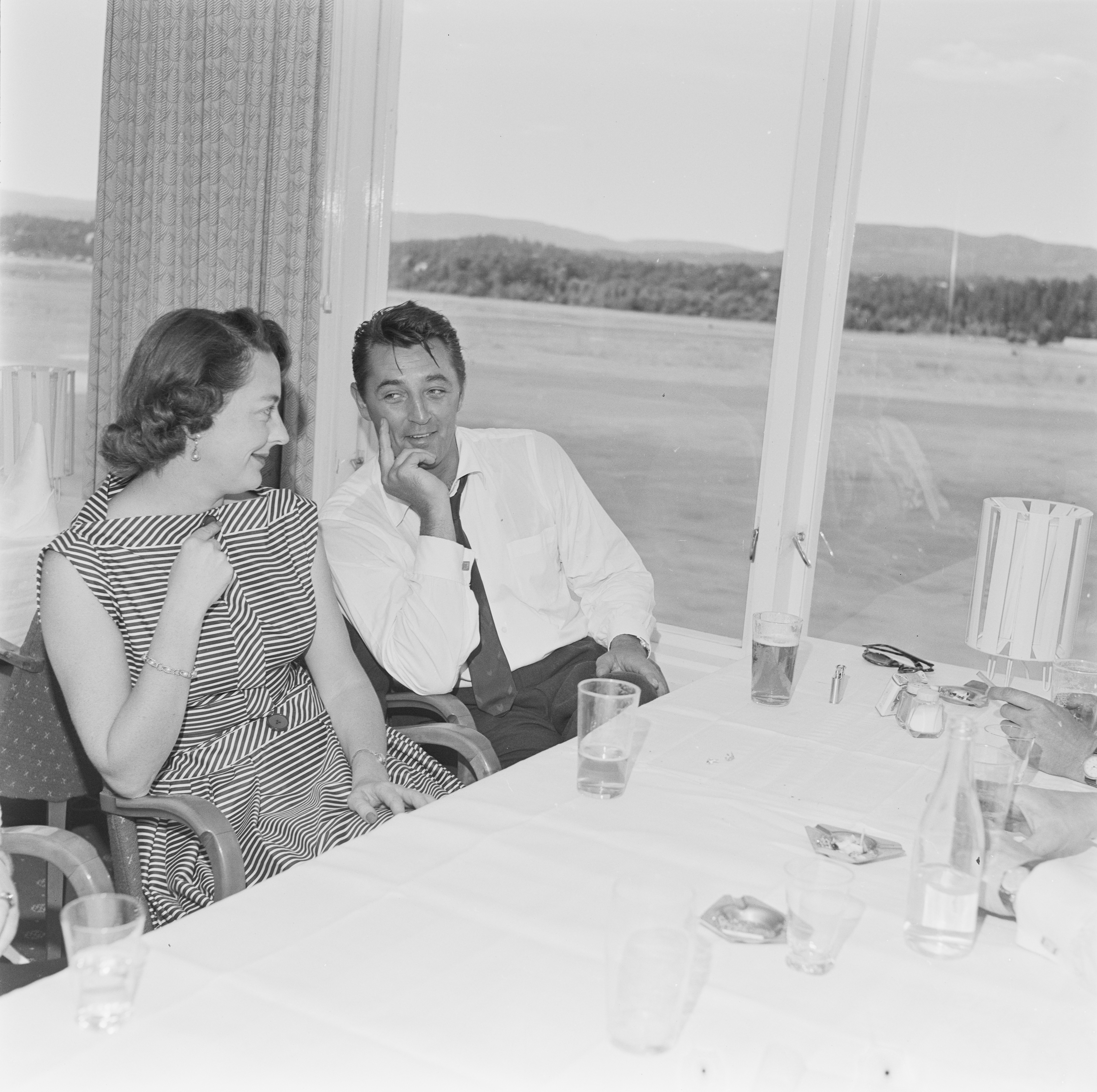 The image is taken from the National Archives of Norway. Robert Mitchum at Fornebu Archive institution: National Archives File Name: Image Sheet NOW Place: Norway, Akershus, Bærum, Fornebu Keywords: Actors, planes, men, women Pictured: Mitchum, Dorothy; Mitchum, Robert